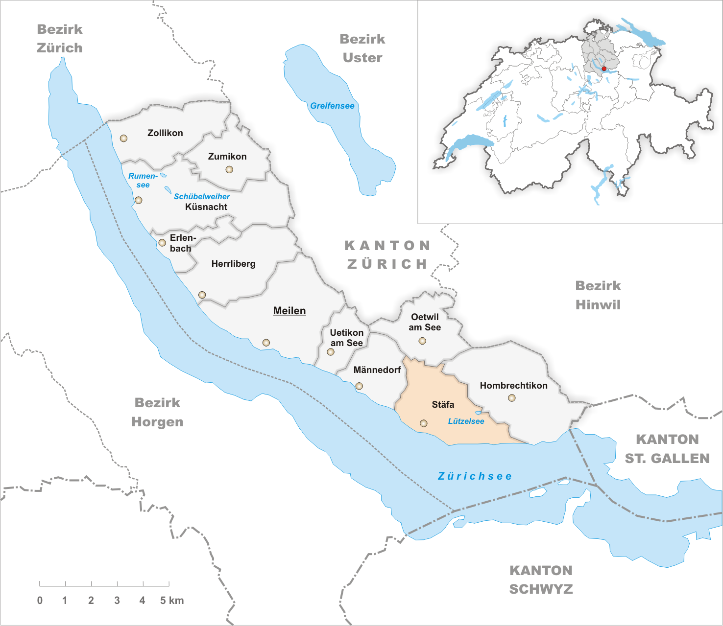 Municipality Stäfa